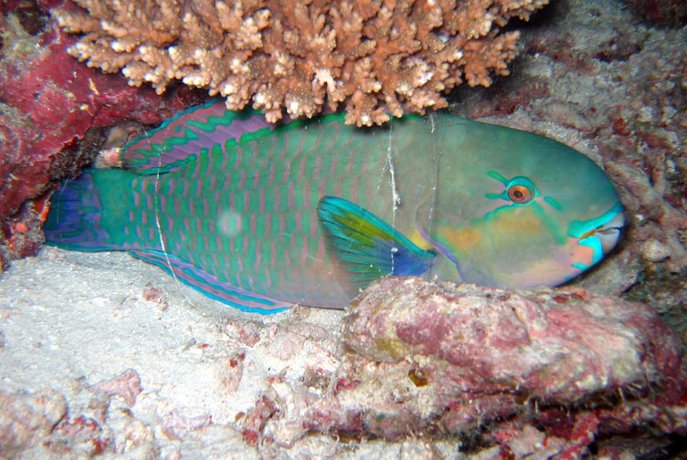 Chlorurus strongylocephalus